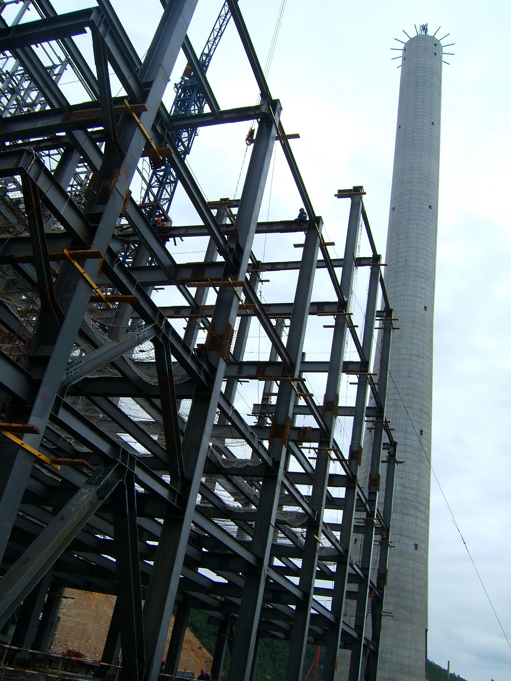 Quang Ninh Thermal Power Plant (VietNam)